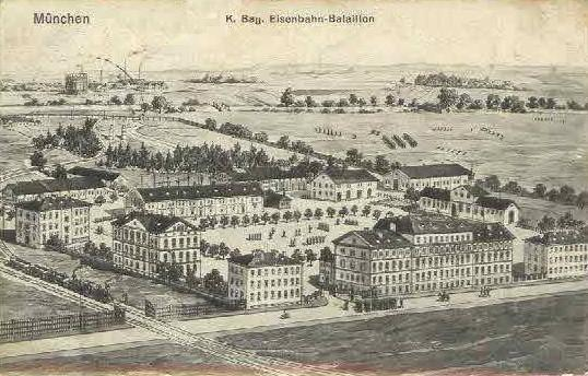 Railraod barracks in Munich